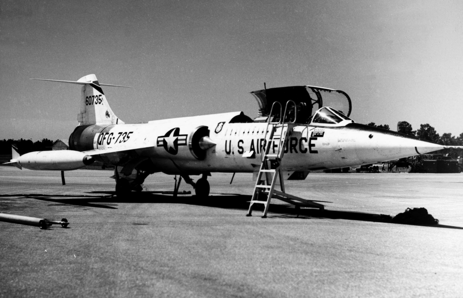 A U.S. Air Force Lockheed JQF-104A Starfighter (s/n 56-0735). This F-104A was converted to an JQF-104A drone, and was put in service with th 3205th Drone Squadron, Eglin Air Force Base, Florida (USA), in 1964.